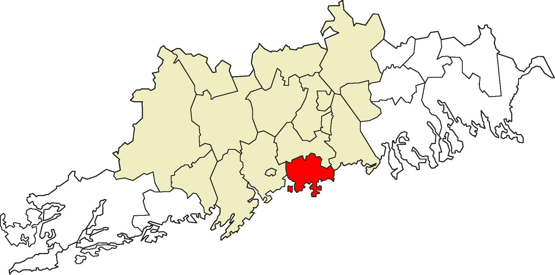 Location of the Finnish municipality of Helsinki in Uusimaa and the Helsinki Sub-Region